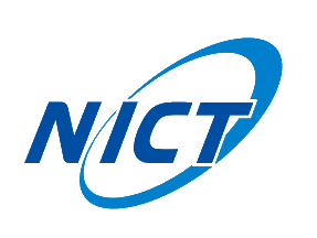 National Institute of Information and Communications Technology; NICT) のロゴ画像。